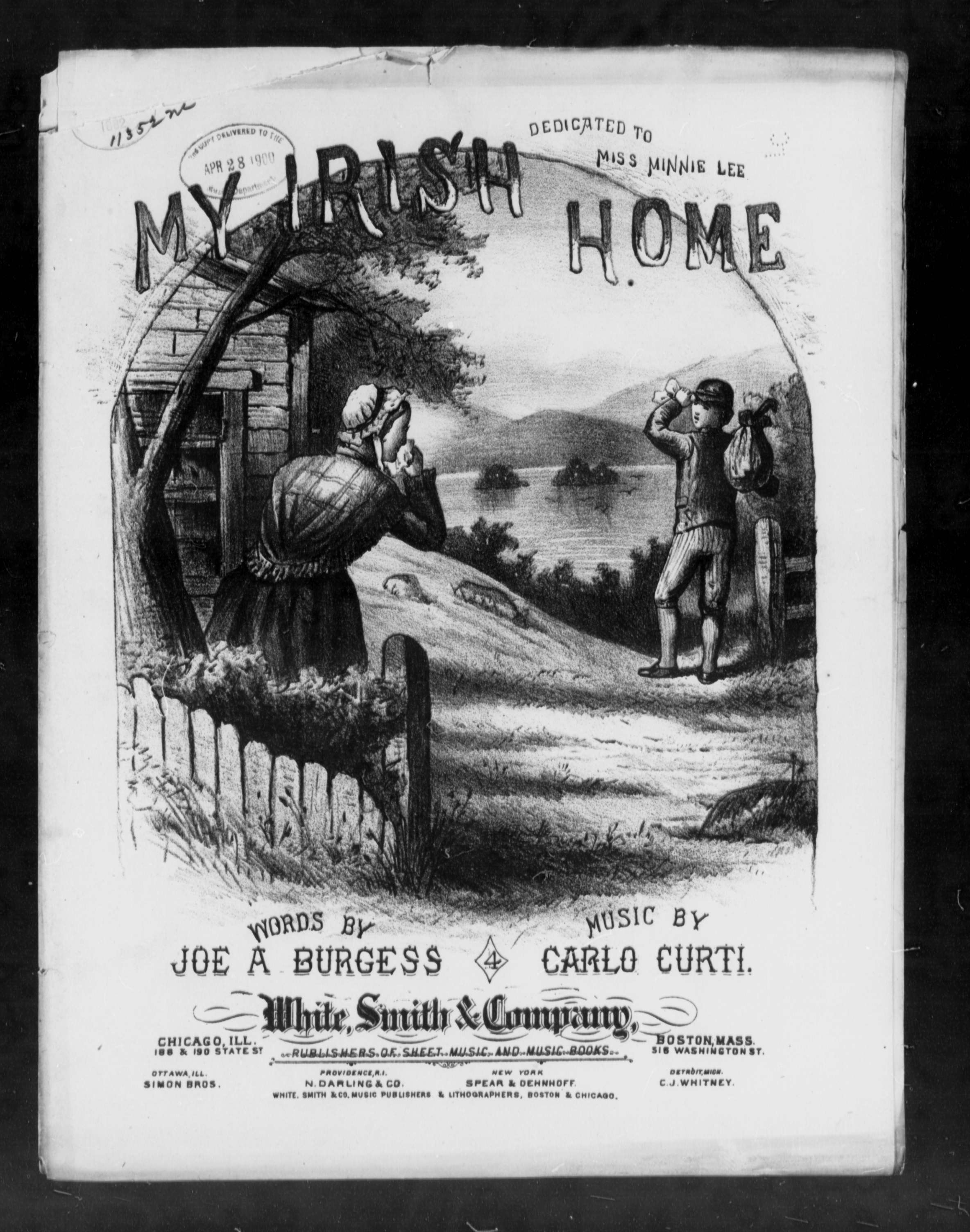 Cover of the sheet music "My Irish Home" with words by Joe a. Burgess and music by Carlo Curti.